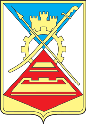 Coat of arms of Novocherkassk approved on September 30, 1980